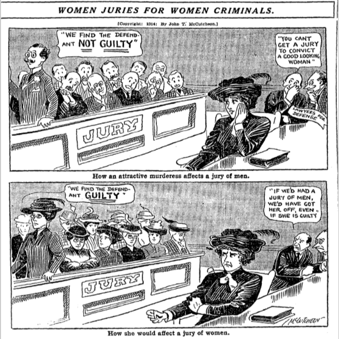 Editorial cartoon that depicts the possible difference between how a male jury would convict a woman criminal versus how a female jury would convict a female criminal.